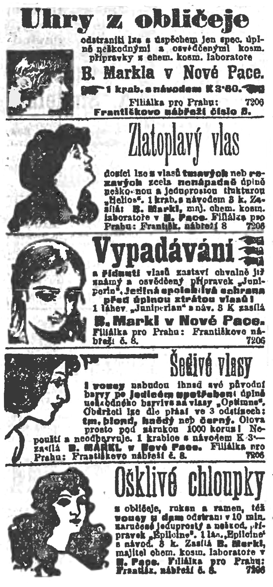 A group of classified ads for various cosmetic products supplied by Bohuslav Markl in Nová Paka, Bohemia (today Czech Republic).